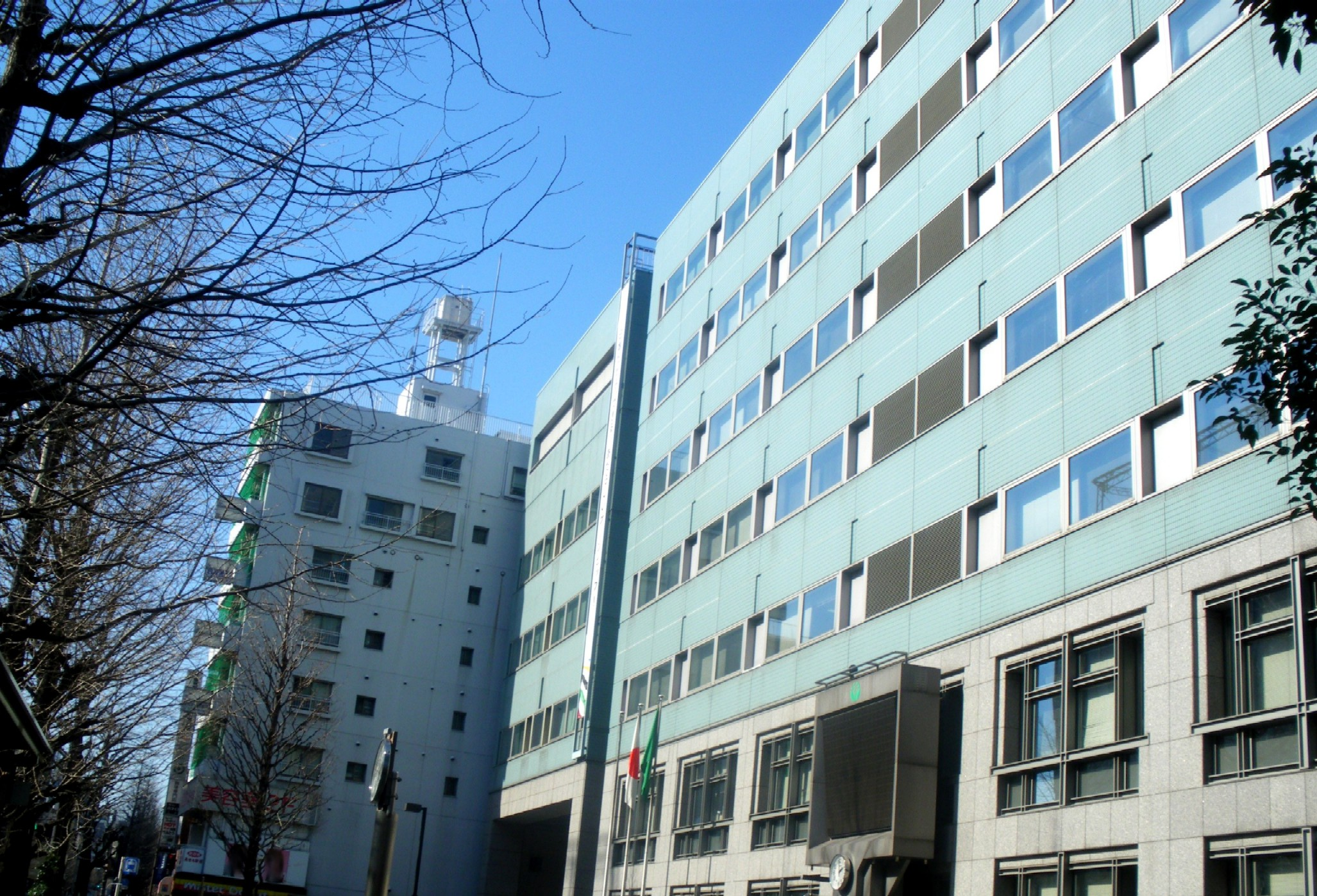 A photo of Suginami City Office,Asagayaminami,Suginami-ku,Tokyo,Japan.